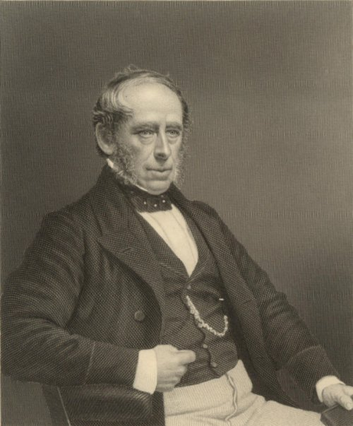 John Pakington Image cropped, rotated, and scaled using The GIMP.